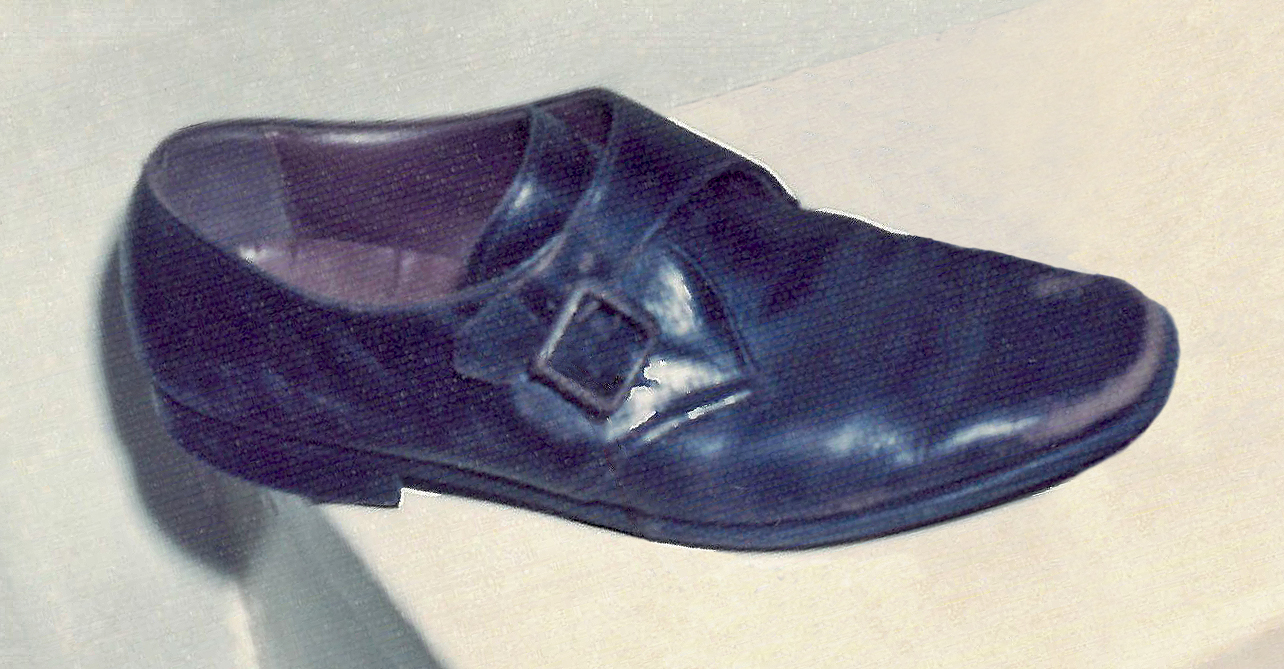 Shoe worn by an unidentified boy murdered in Florida in 1972.